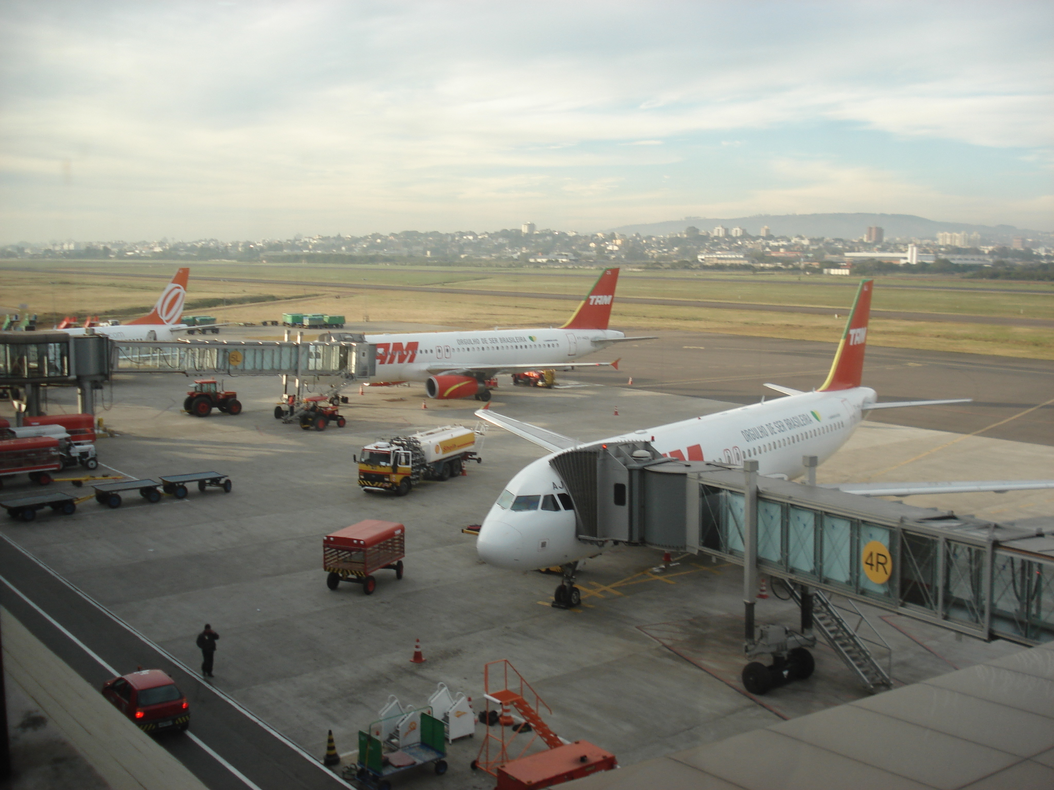 TAM Linhas Aéreas aircraft at Salgado Filho International Airport, Porto Alegre, RS, Brazil